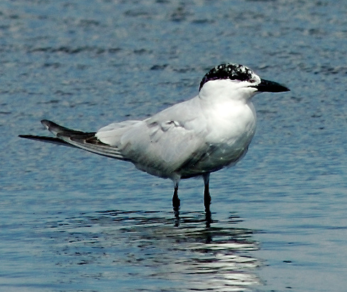 Gull-billed Tern Gelochelidon nilotica, Sod Farms, Belle Glade, Palm Beach Co., Florida